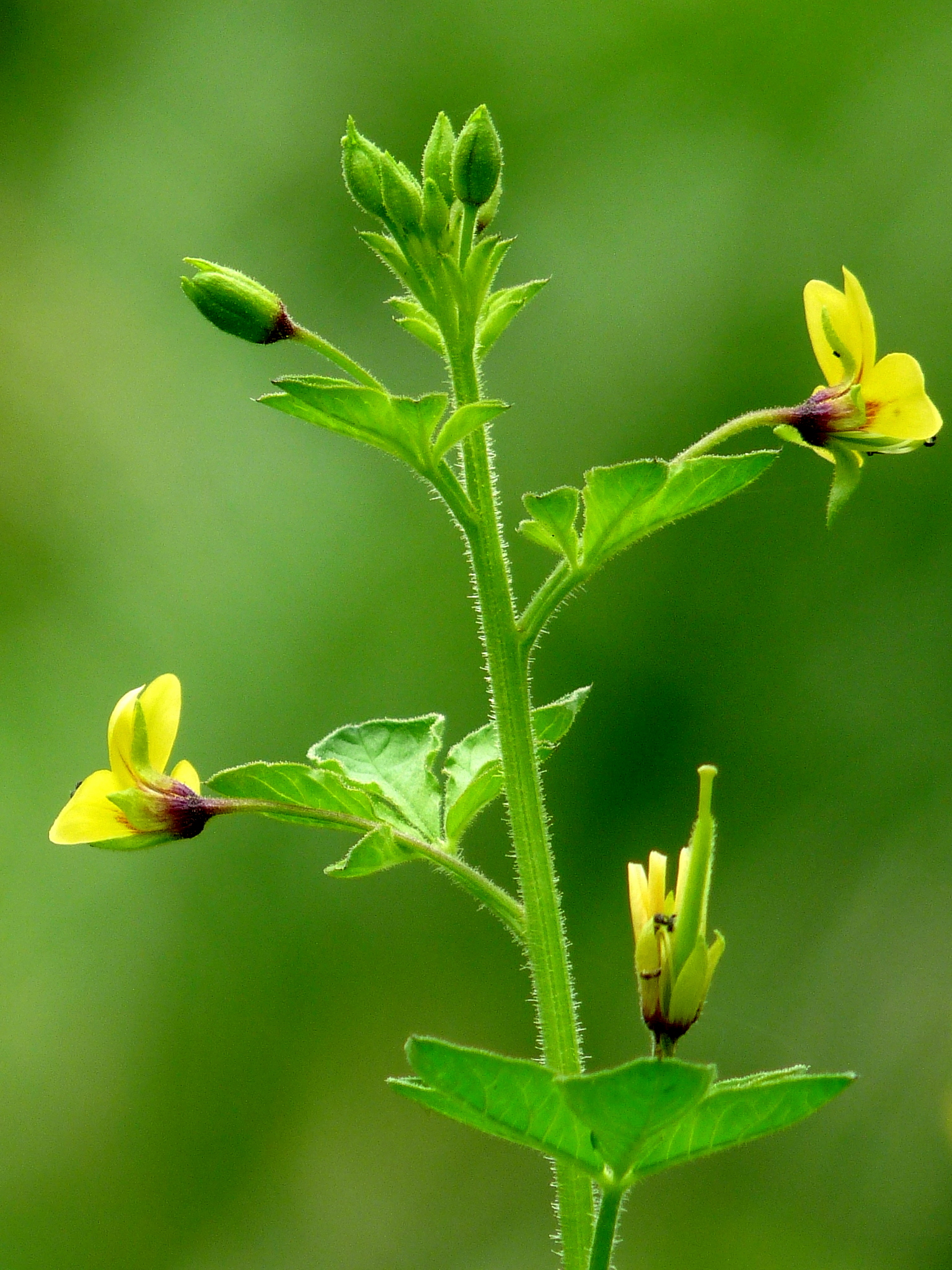 Asian spider flower (Cleome viscosa)is a usually tall annual herb, up to a meter high, more or less hairy with glandular and eglandular hairs. Often found locally abundant as a naturalized weed in cultivated fields, along roadsides, and especially in cane fields. Taken at Kudayathoor, Kerala, India